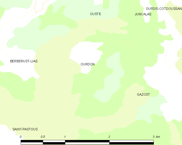 Map of French municipality